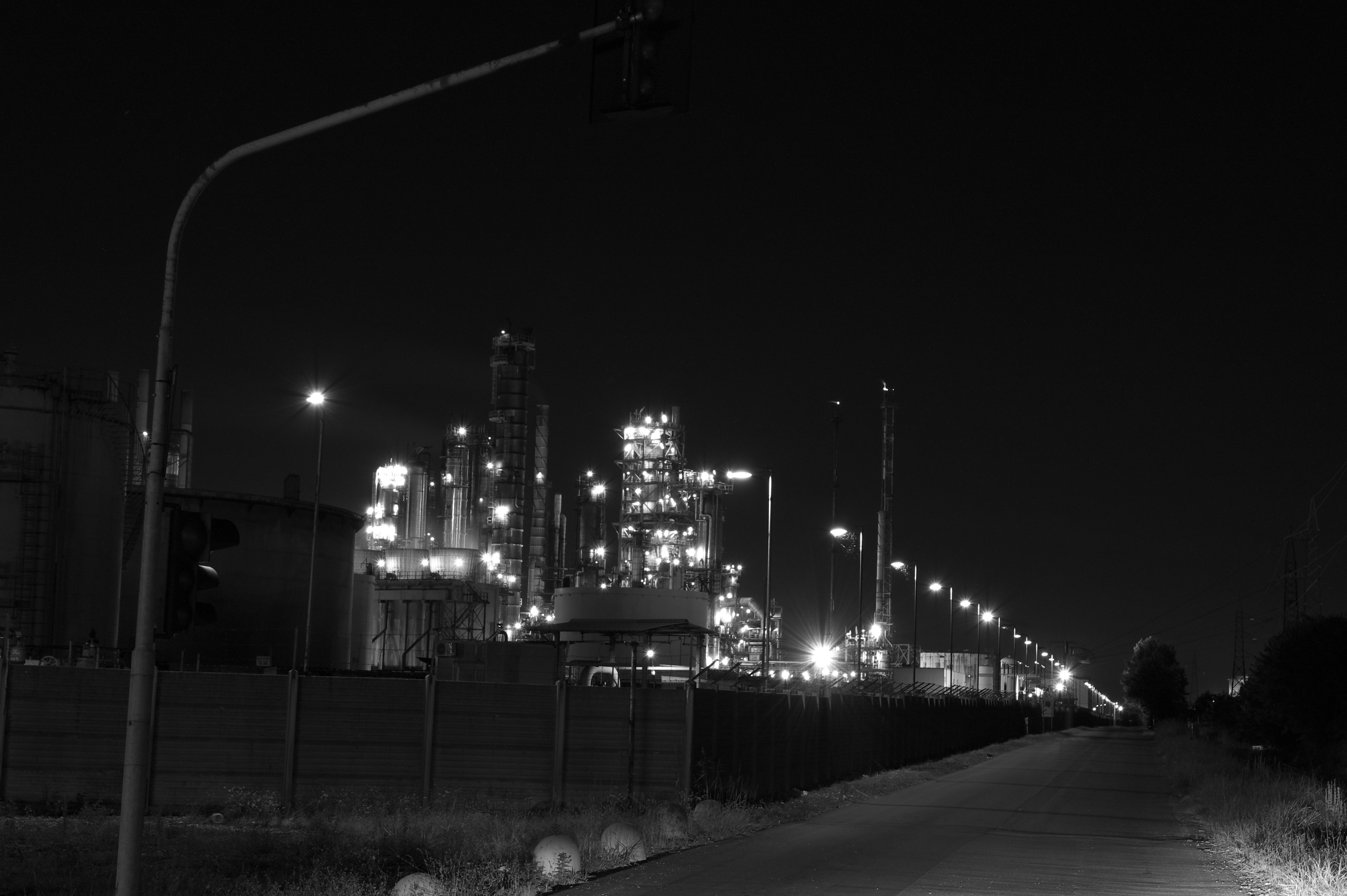 Refinery SARPOM in the night, San Martino (Trecate), Italy